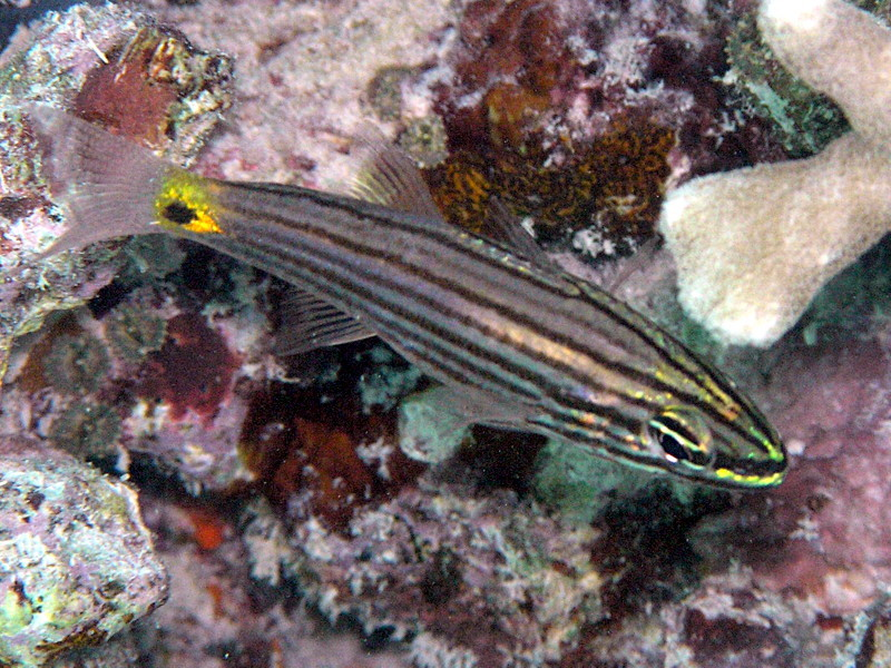 Wolfskardinalbarsch (Cheilodipterus artus); en: Wolf cardinalfish, Malediven, Veligandu; Kamera: Olympus C-765